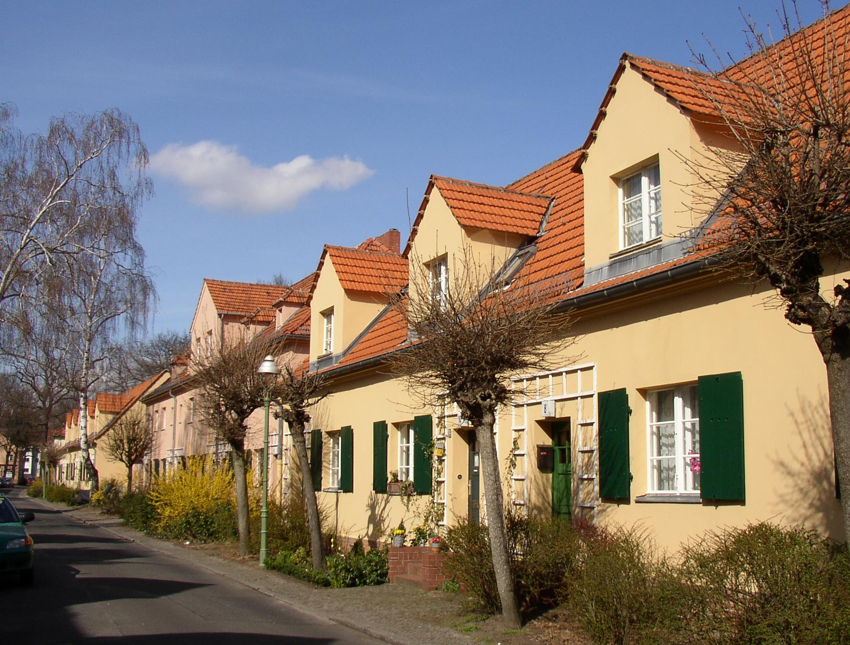 Rapsstraße in „Siedlung Siemensstadt“ in Berlin-Spandau, Germany